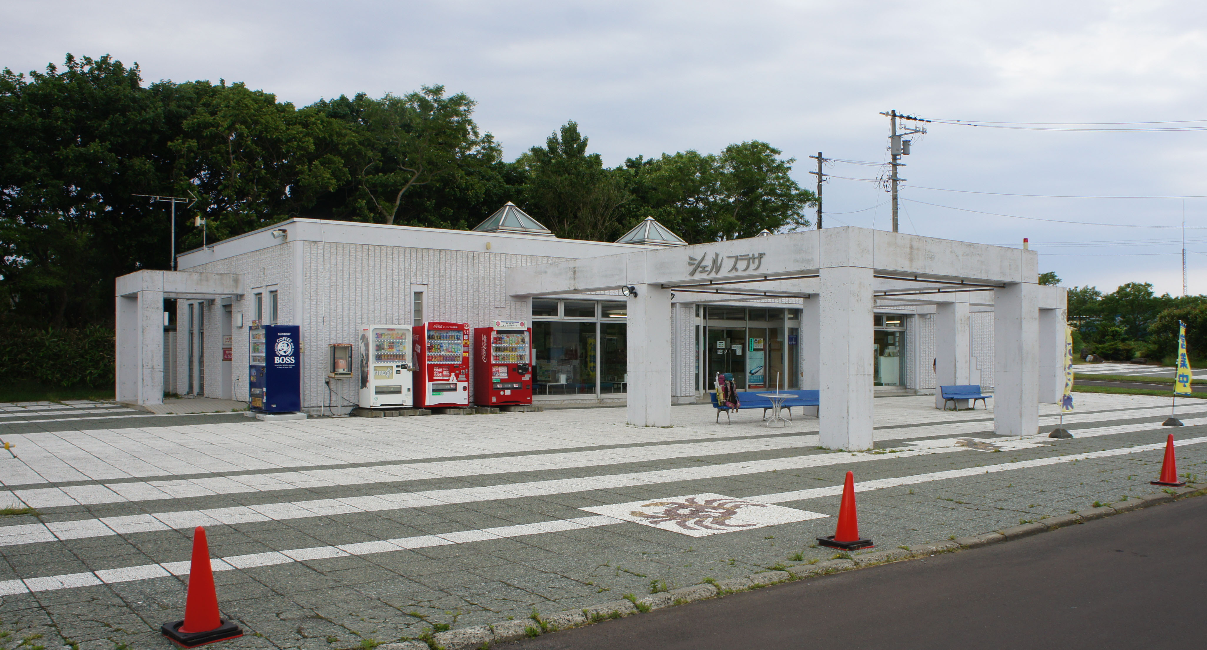 A picture of Michinoeki Shell Plaza · Minato in Rankoshi Town, Hokkaido